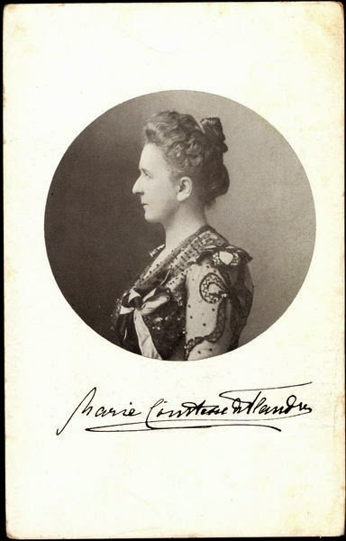 Princess Marie of Belgium, Countess of Flanders, 1880s